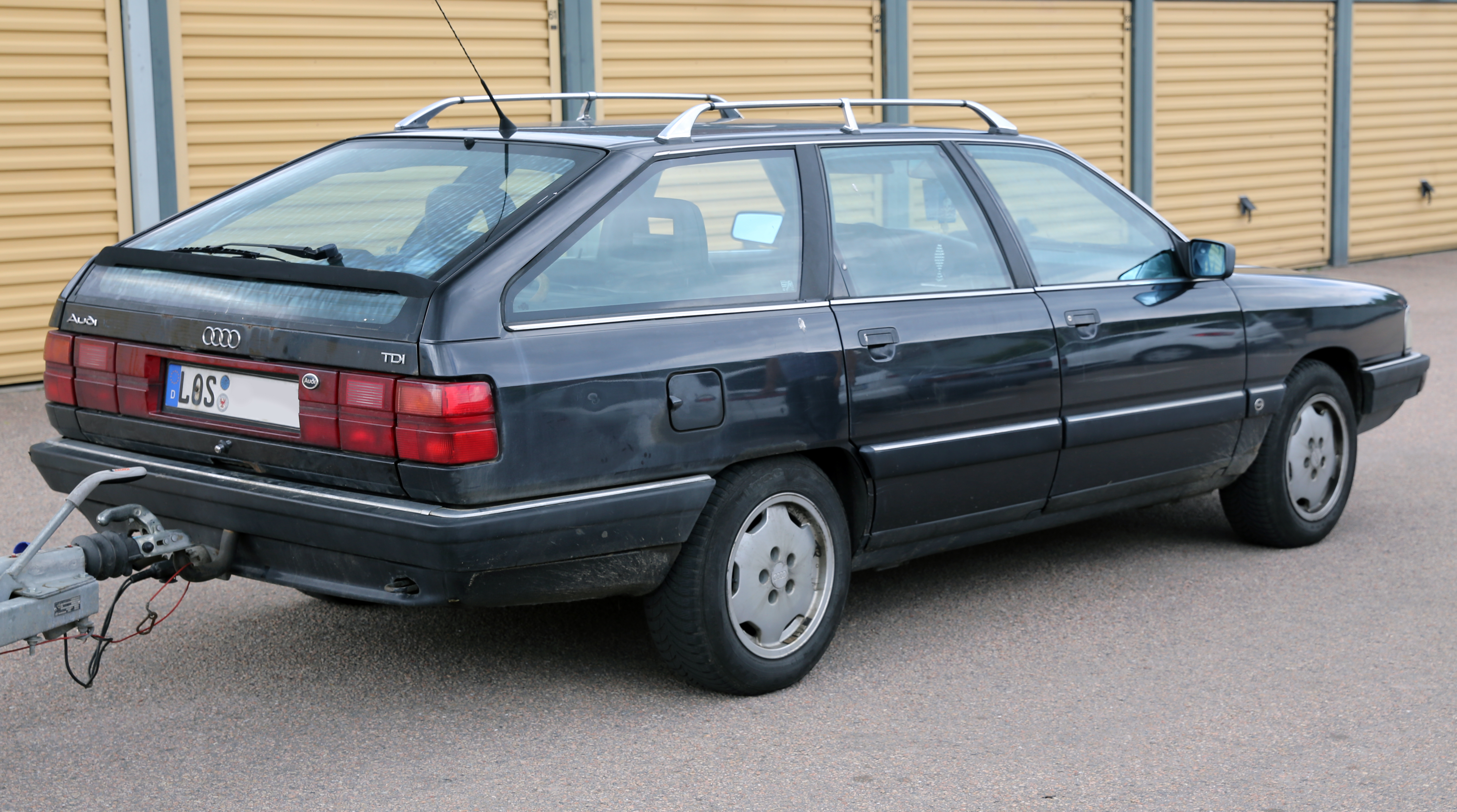 1990 Audi 100 Avant TDI, the only model year that this car was available. Apparently the 100 also received a late in life facelift; in December 1990 the C4 arrived to replace this.